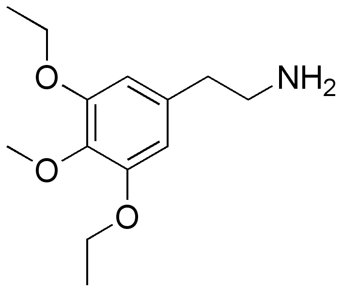 Chemical structure of Symbescaline, drawn in ChemDraw by User:Mark PEA.